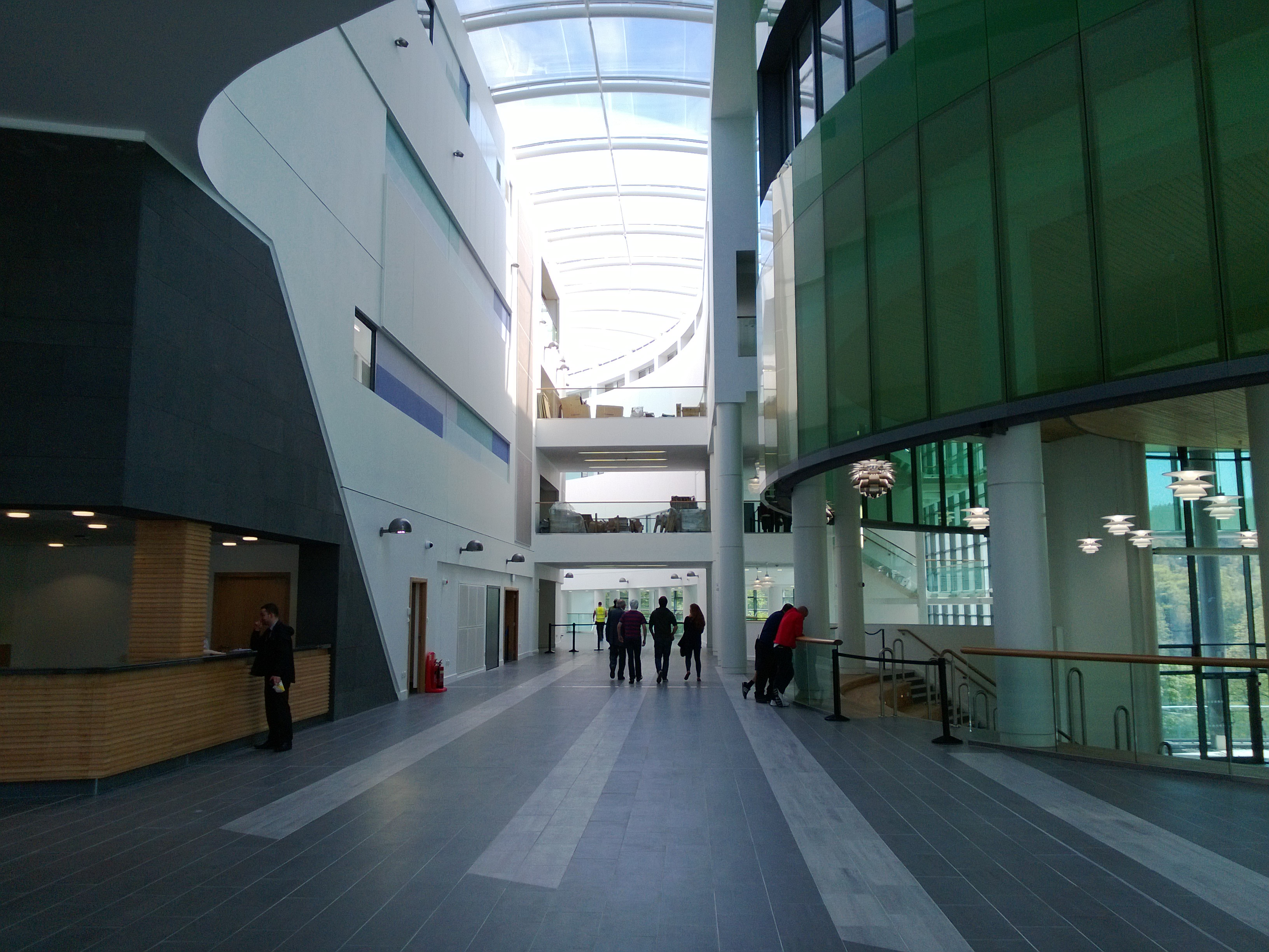 Atrium of Riverside East building at The Robert Gordon University, Aberdeen, away from main entrance onto plaza and toward main body of building. Base of green library tower is at right with building's reception desk on left.